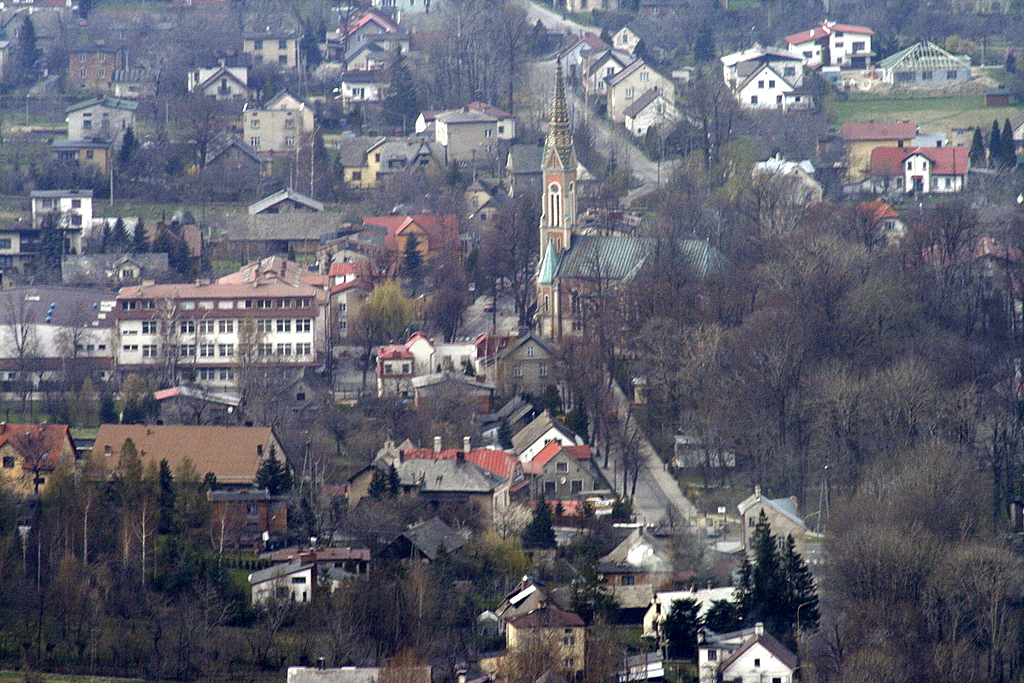 Kozy, Poland